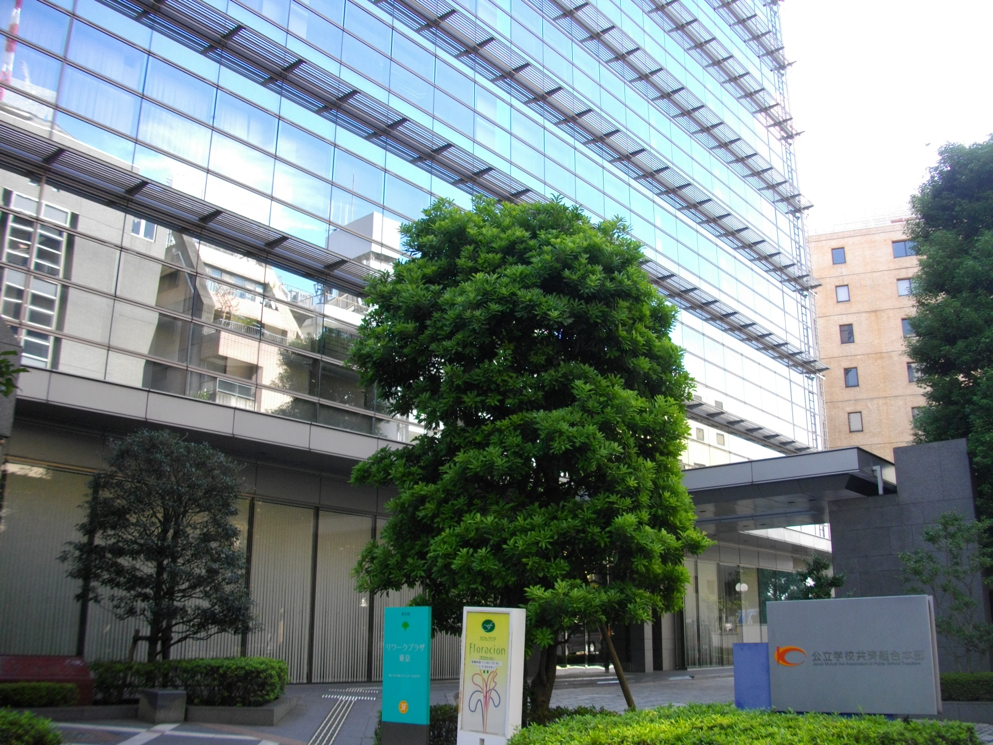 Japan Mutual Aid Association of Public School Teachers Headquarters